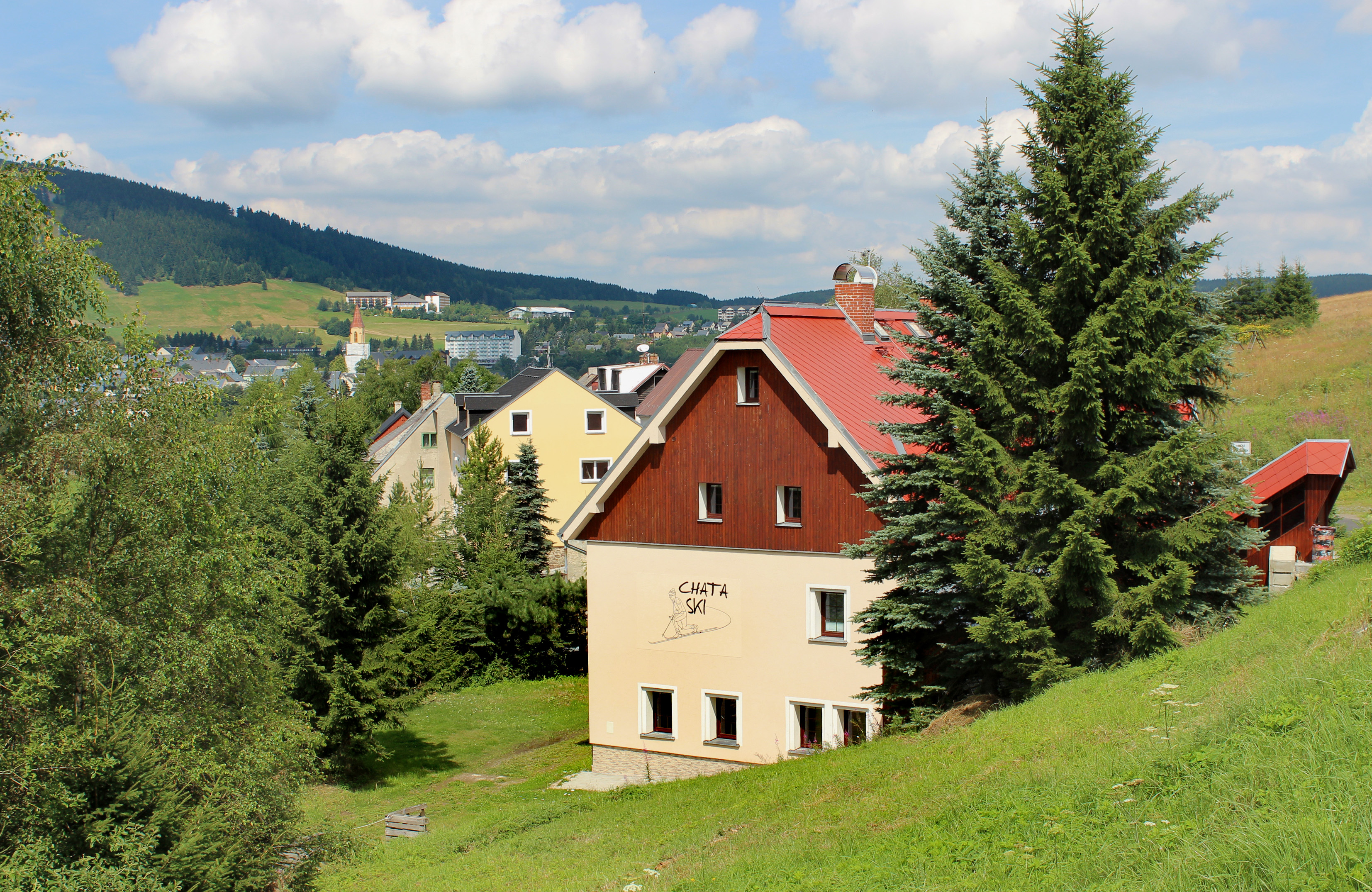 South part of Loučná pod Klínovcem, Czech Republic.